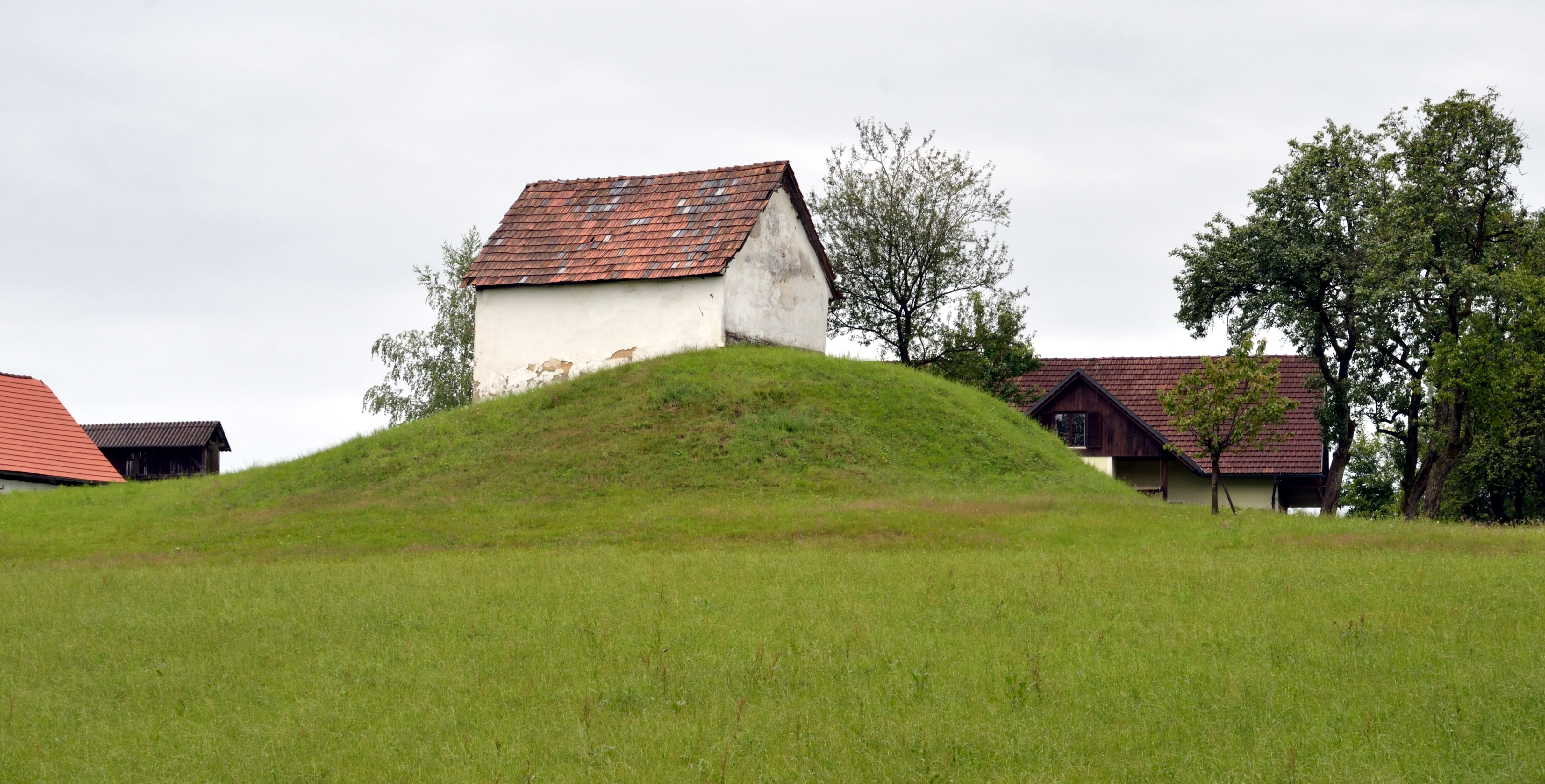 The tumulus Tschoneggerkogel in Goldes, municipality of Großklein, is part of the Hallstatt necropolis at the Burgstallkogel.